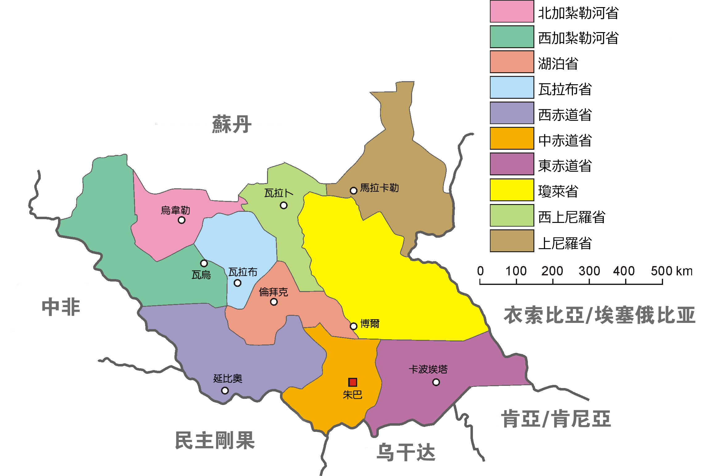 Administrative map of South Sudan. Adapted from Polish-language version by Aotearoa.